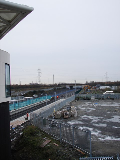 Railway near Park West and Cherry Orchard Station Looking westwards towards the bridge on the M50 motorway.